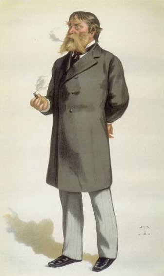 Caricature of James Russell Lowell (1819-1891). Caption read "Hosea Biglow".